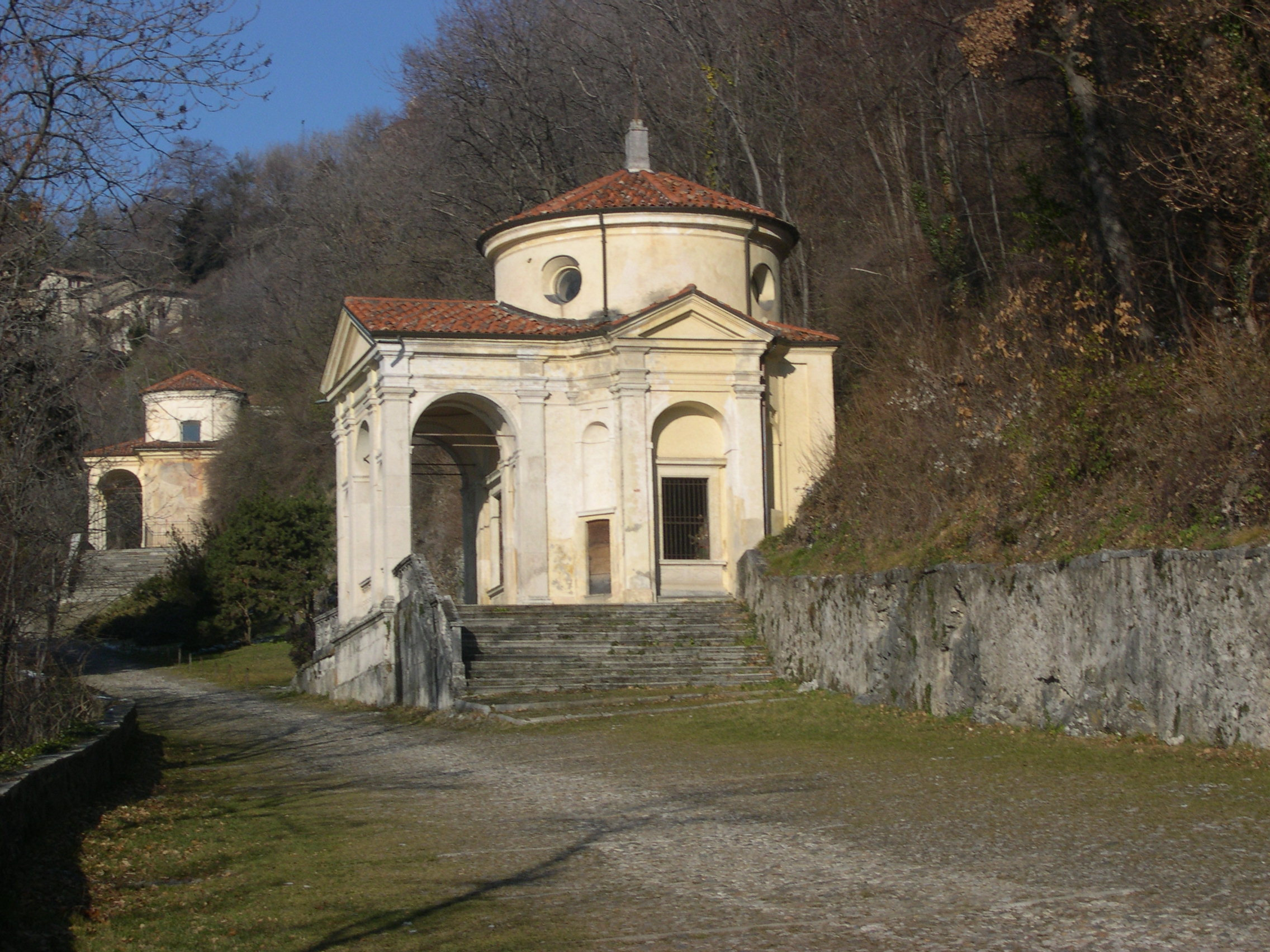 Chapel VIII of Sacro Monte (Varese)